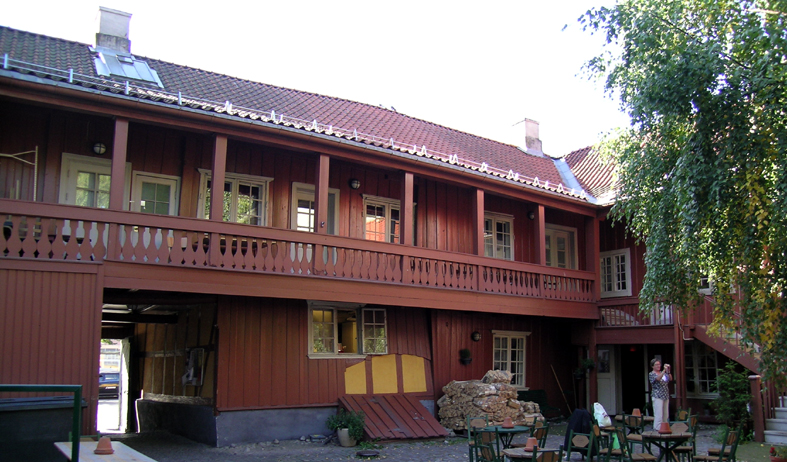 «Asylet», Grønland 28, Oslo. Built 1740; side wing 1798. Protected by law.